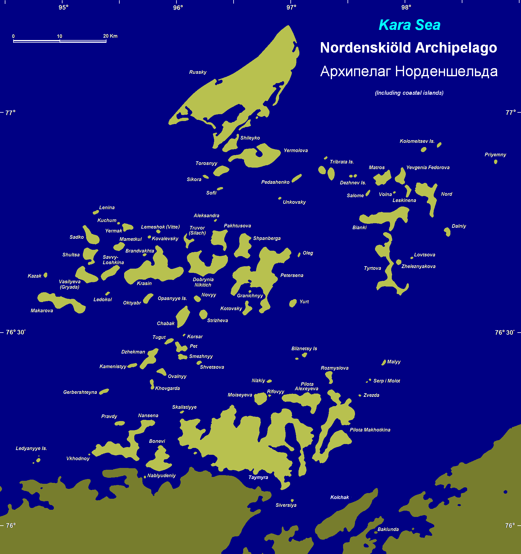 Archipelago map